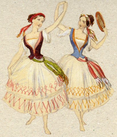 1855 professional European dancers.